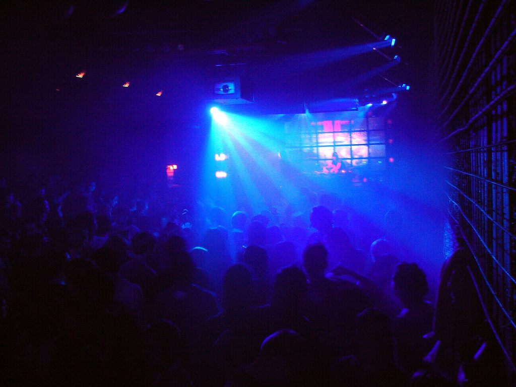 Autumn 2005 in Vienna. Berlin's Ellen Allien mows the floor. Rave is King! See where this picture was taken. [?]